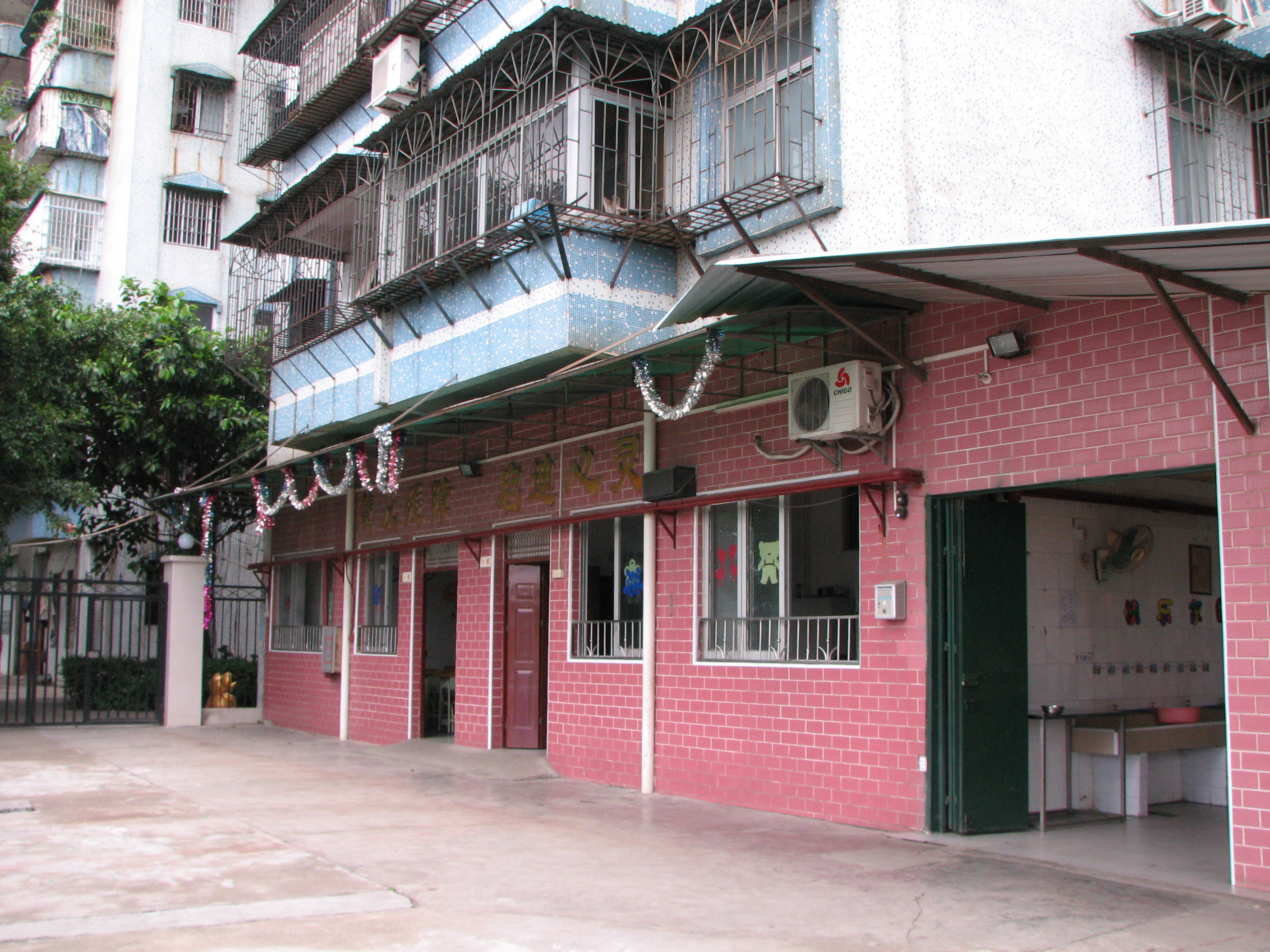 Guangzhou Huiling Special Primary School